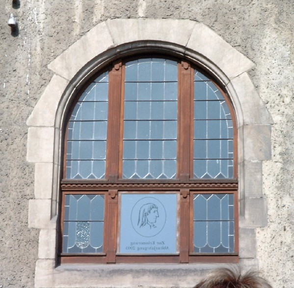 The present of the high-school graduate to their school. The windows represents GutsMuths underlined with the text "Zur Erinnerung - Abiturjahrgang 2003" (For memory - Graduate class of 2003). The text is only readable within the building.